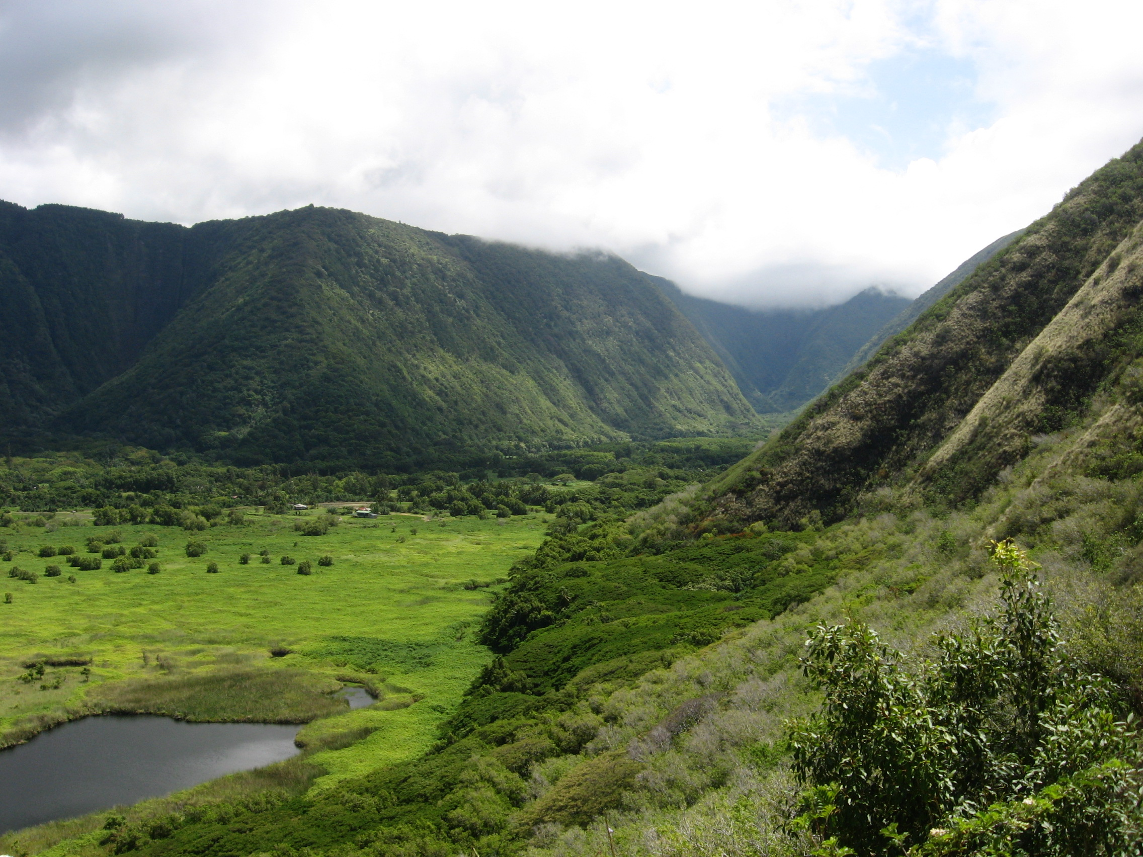 Looking upstream/away from the beach up the Waipio Valley in Hawaii